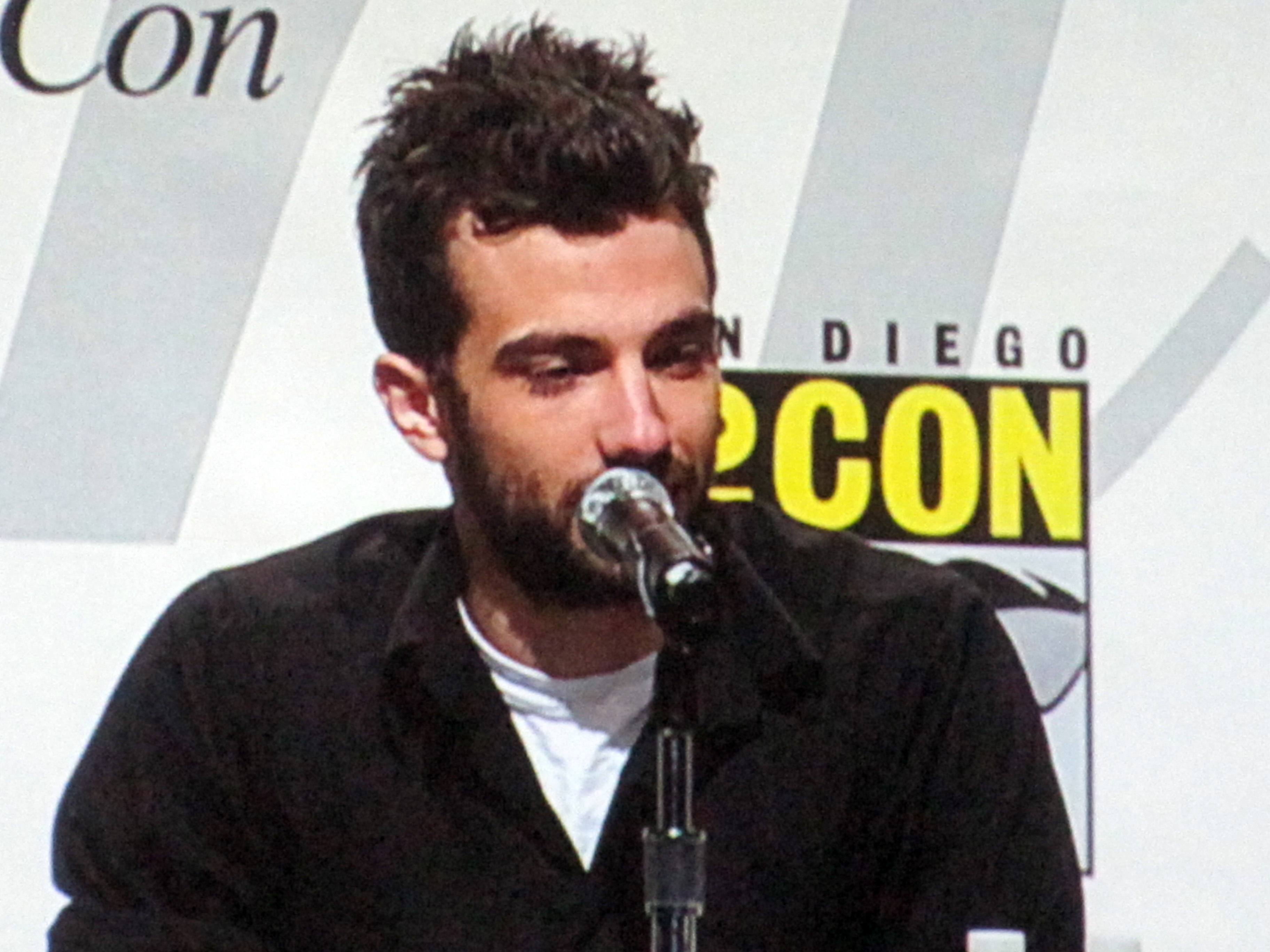 Actor Jay Baruchel participating in a panel on The Sorceror's Apprentice at WonderCon 2010.